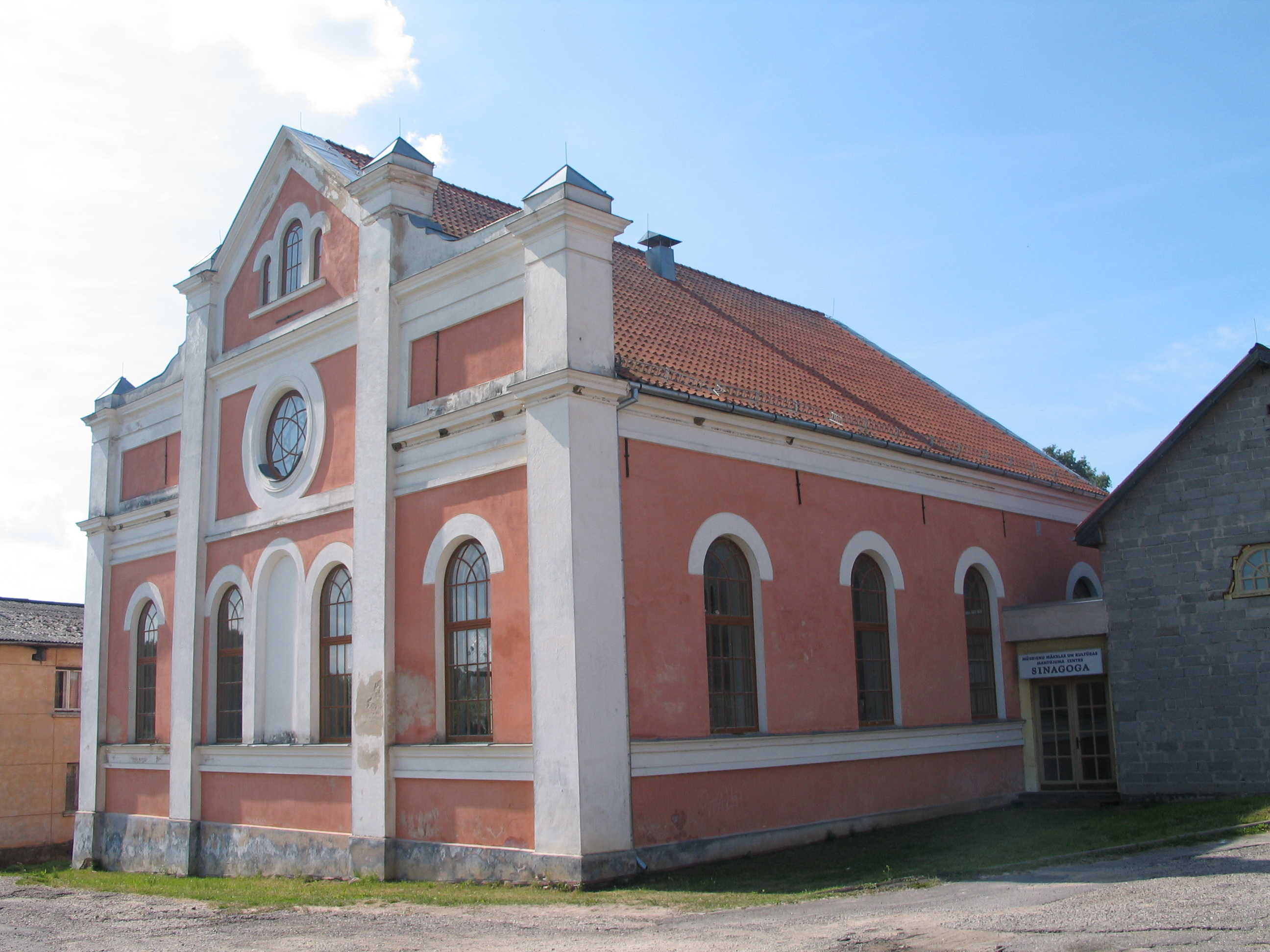 Former synagogue in Sabile